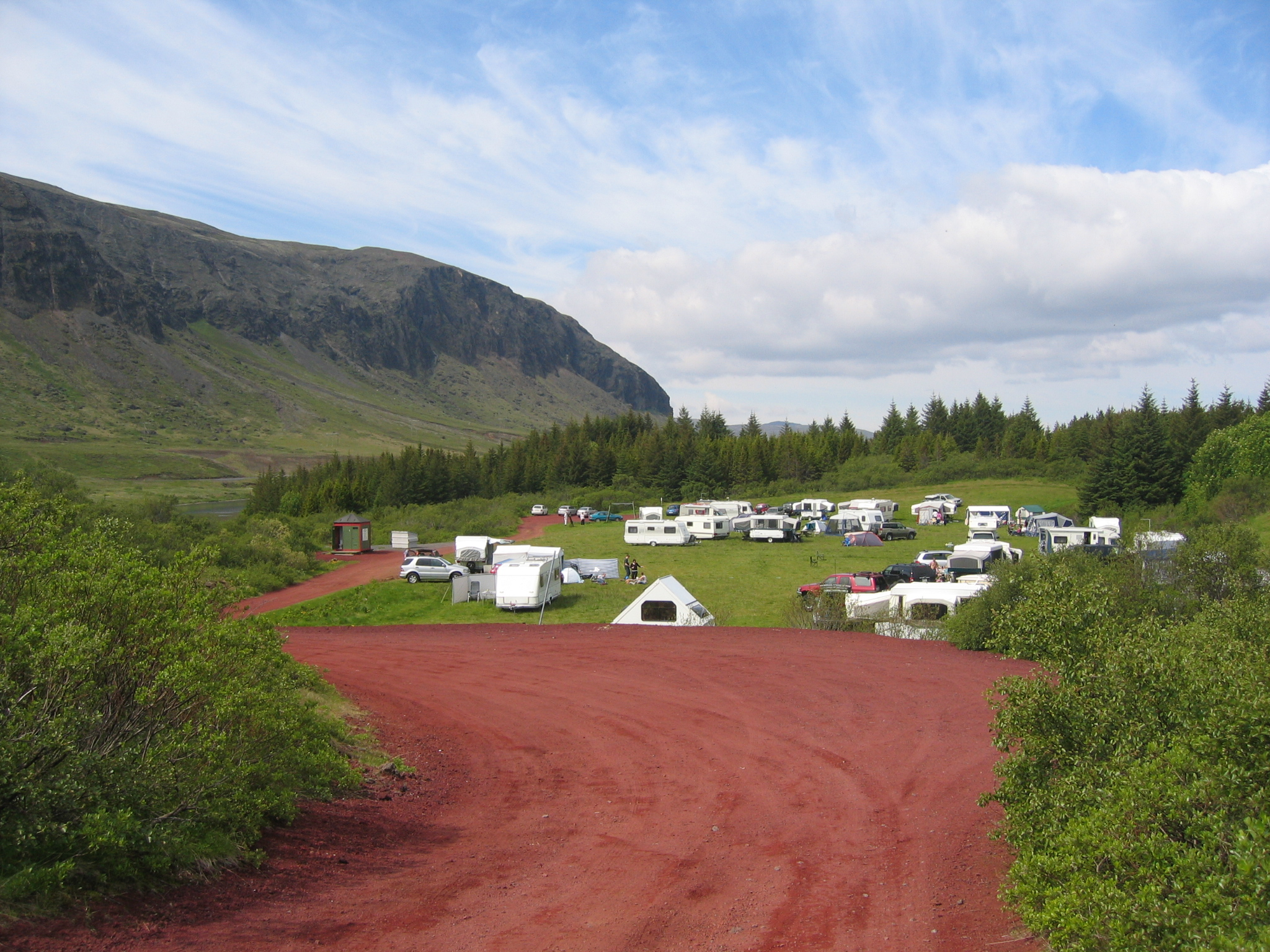 camping area in Þrastarskógur, Iceland.